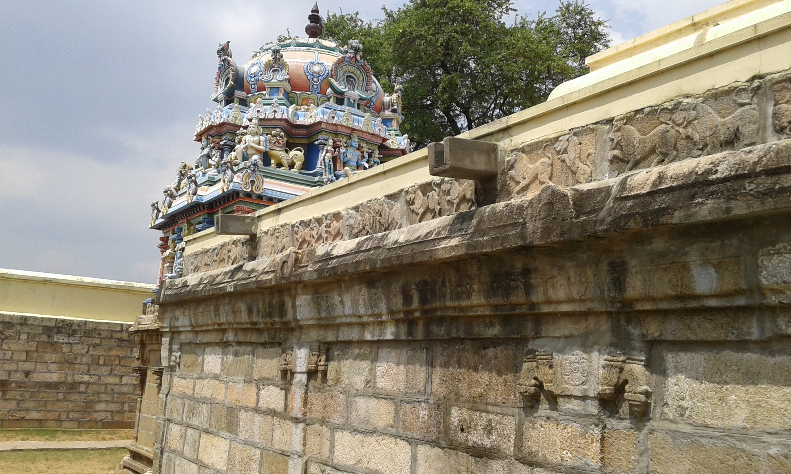 Devapiran temple